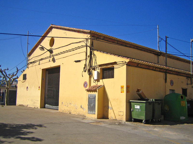 Photo of the market at Ondara, county Marina Alta, Region of Valencia, Spain.